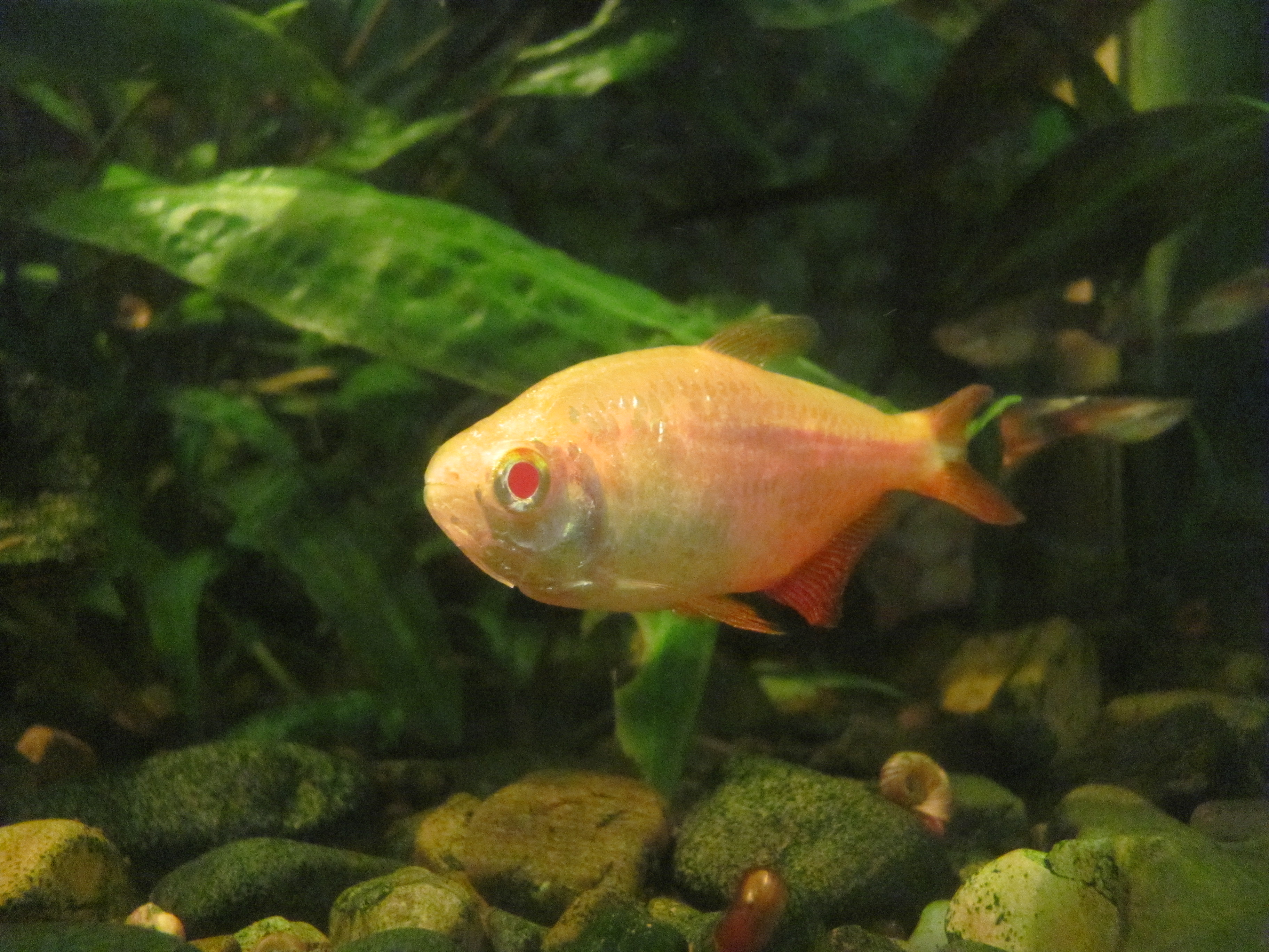 Buenos Aires Tetra, albino form